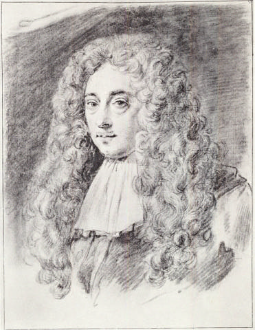 Constantijn Huygens Jr., (1628-1697), was a Dutch statesman, and telescope maker. He was the son of the poet and states-man Constantijn Huygens and the older brother of Christiaan Huygens.[1] Image from